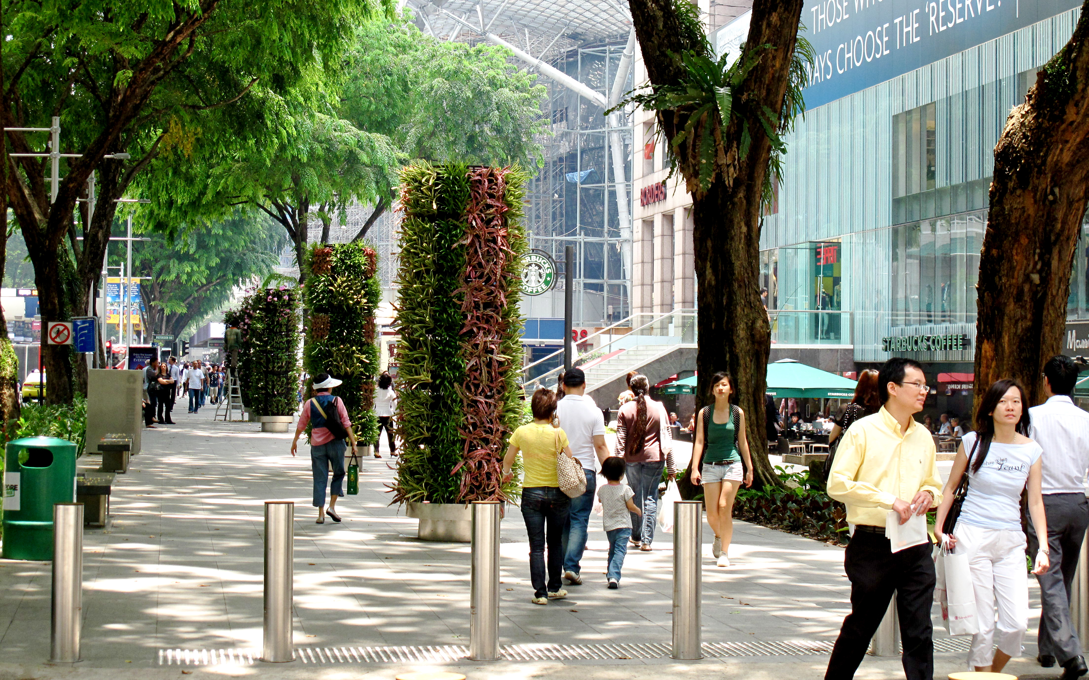 New Orchard Road - Flower Zone